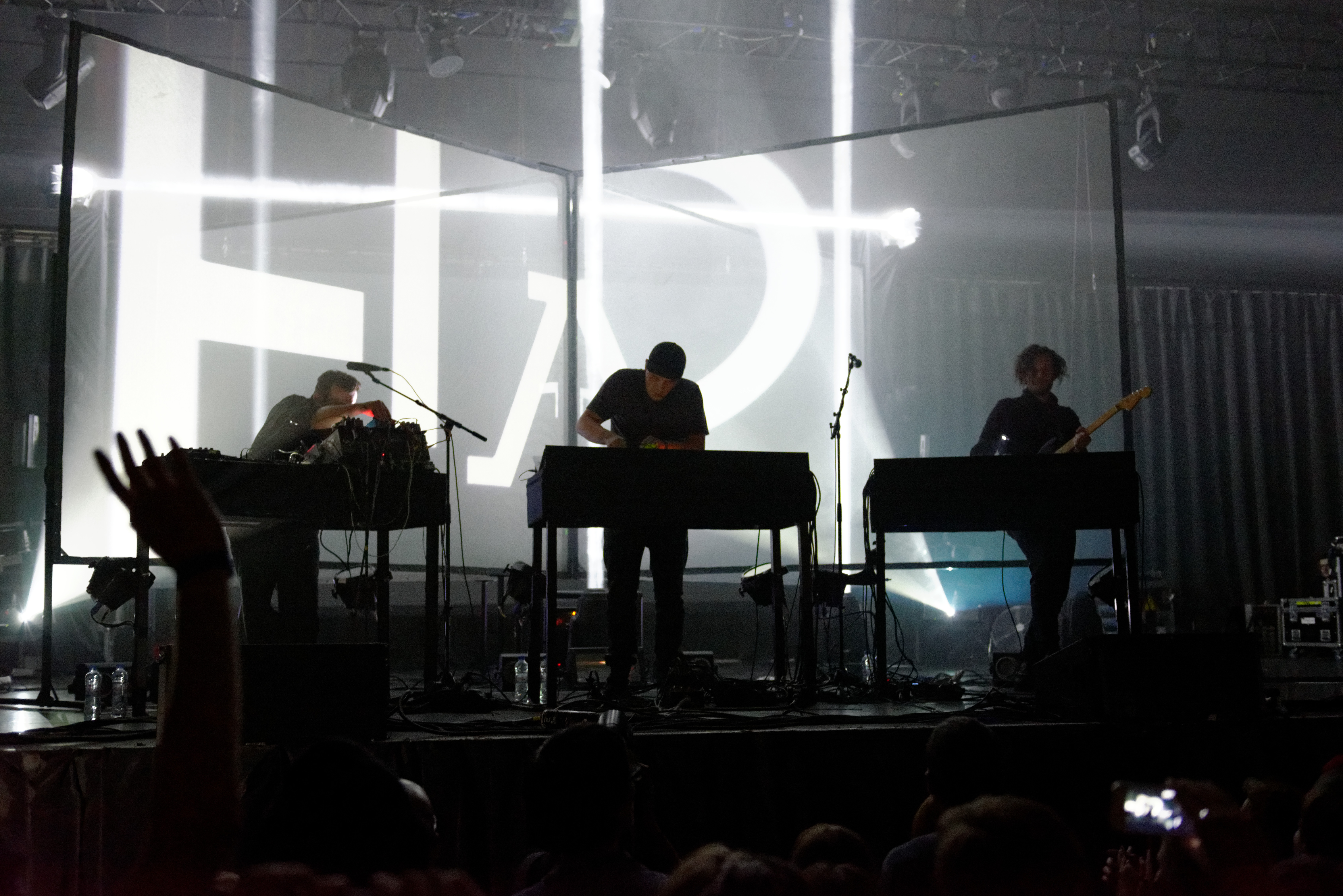 moderat, 2014